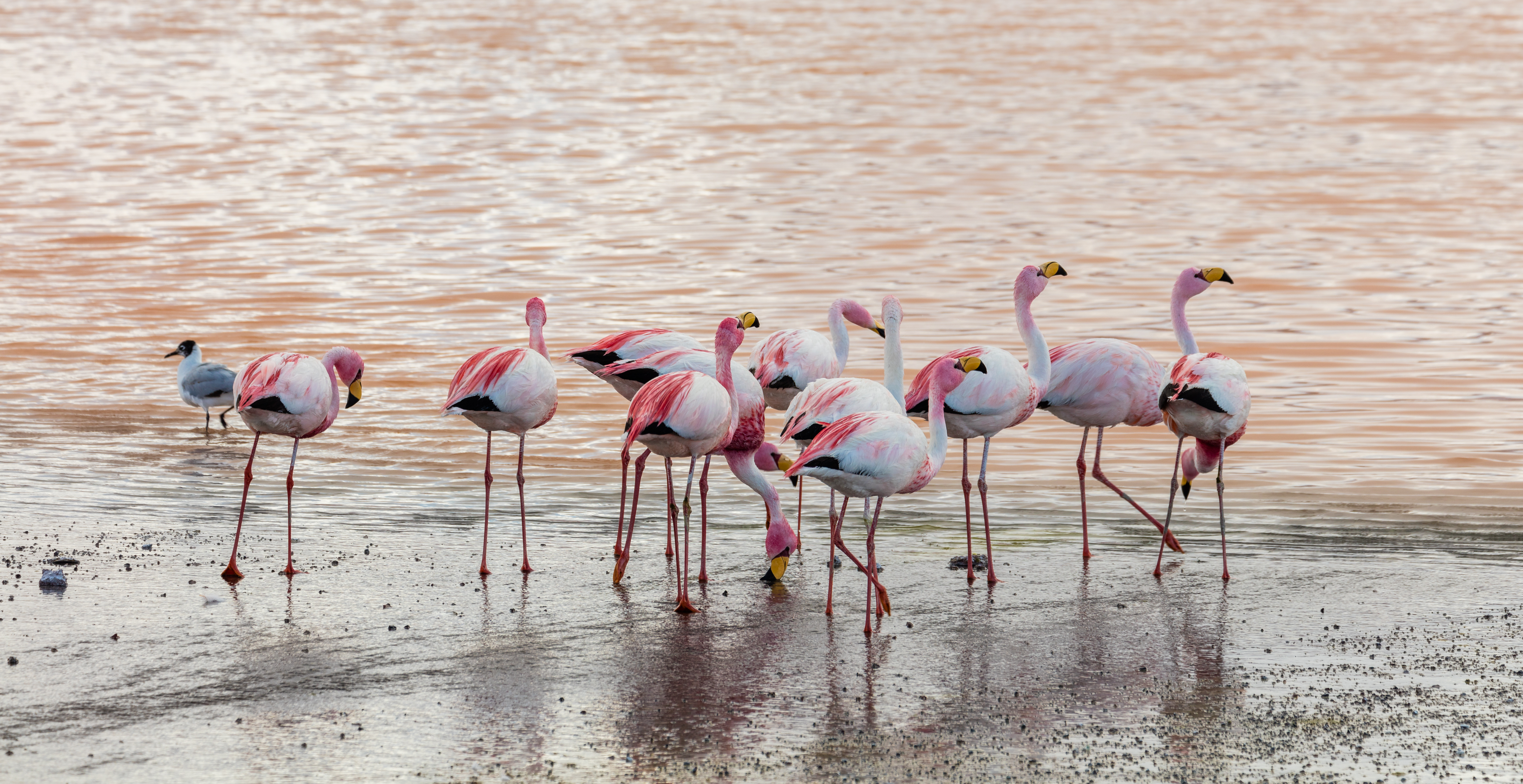 James's Flamingos (Phoenicoparrus jamesi), Laguna Colorada, Bolivia